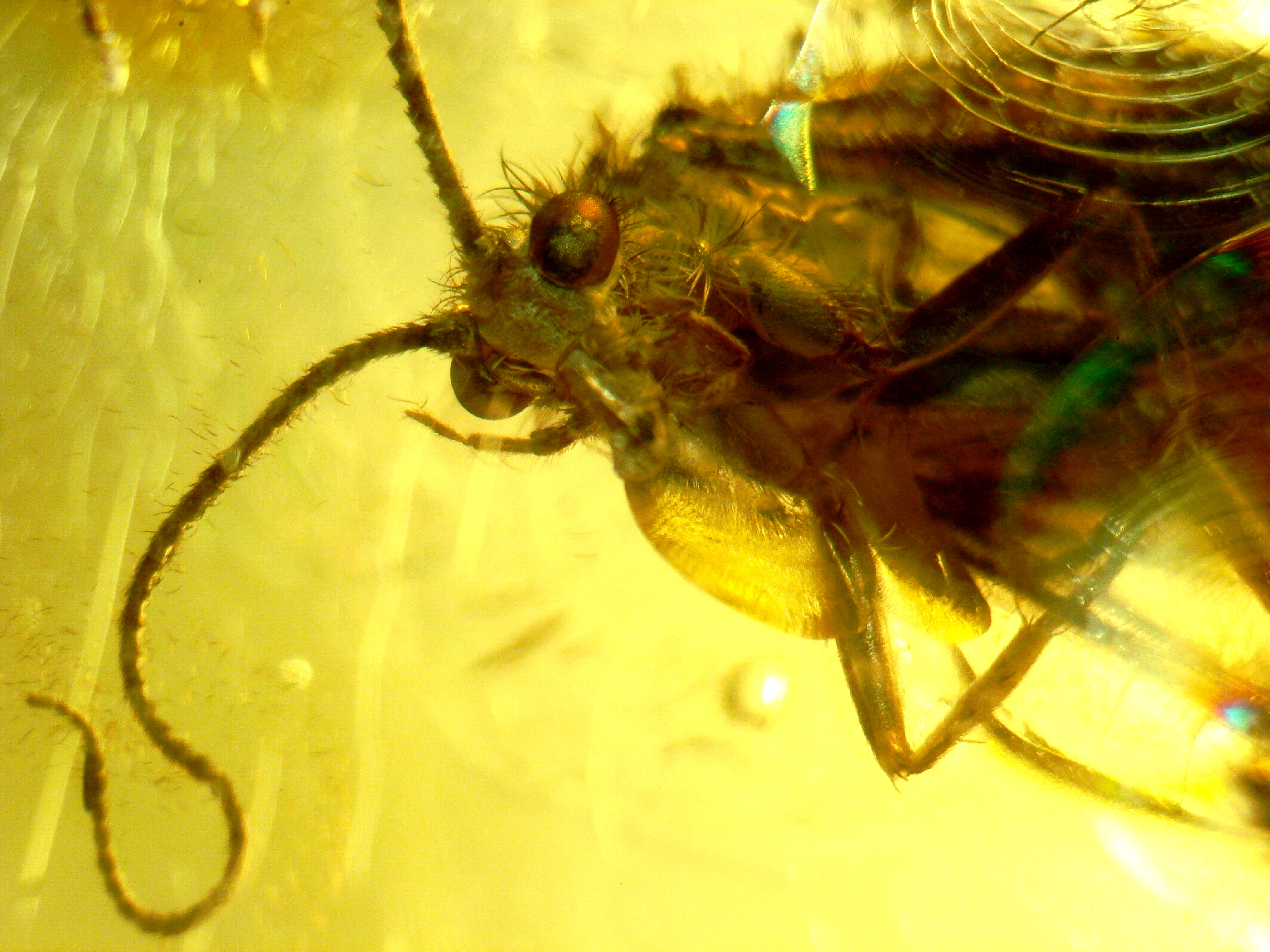 Baltic amber inclusions - 40-50 million years old - Caddisflies (Amphiesmenoptera, Trichoptera, ...?). About 13 mm long (from the head and to the rear of the last leg). There are 5 photos of this Trichoptera in this category: Fossil Trichoptera. The images have the same name as this just added a number between 1 and 5 after the brackets.